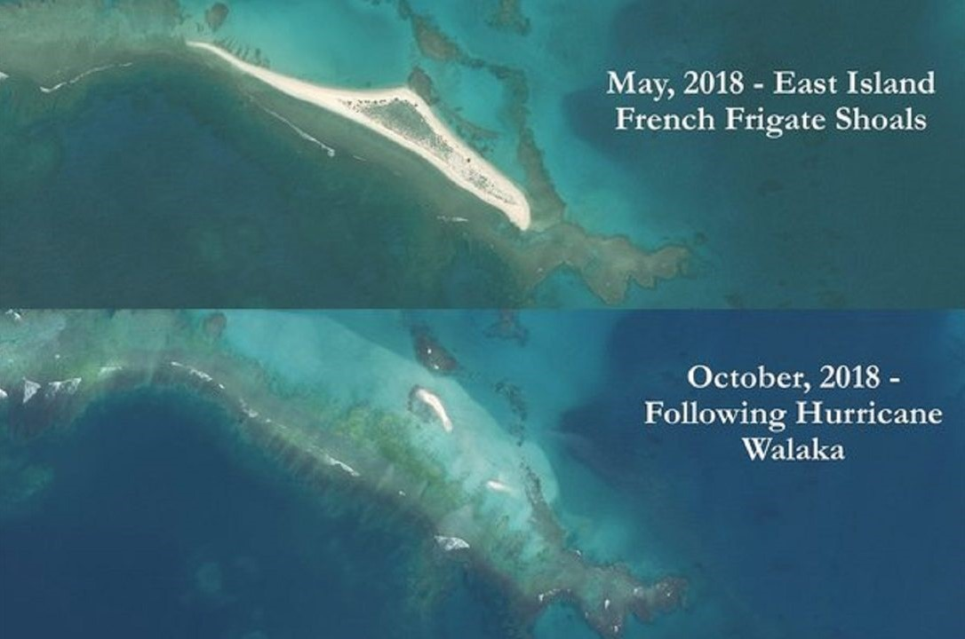 The East Island on May and October 2018 respectively, before and after Hurricane Walaka